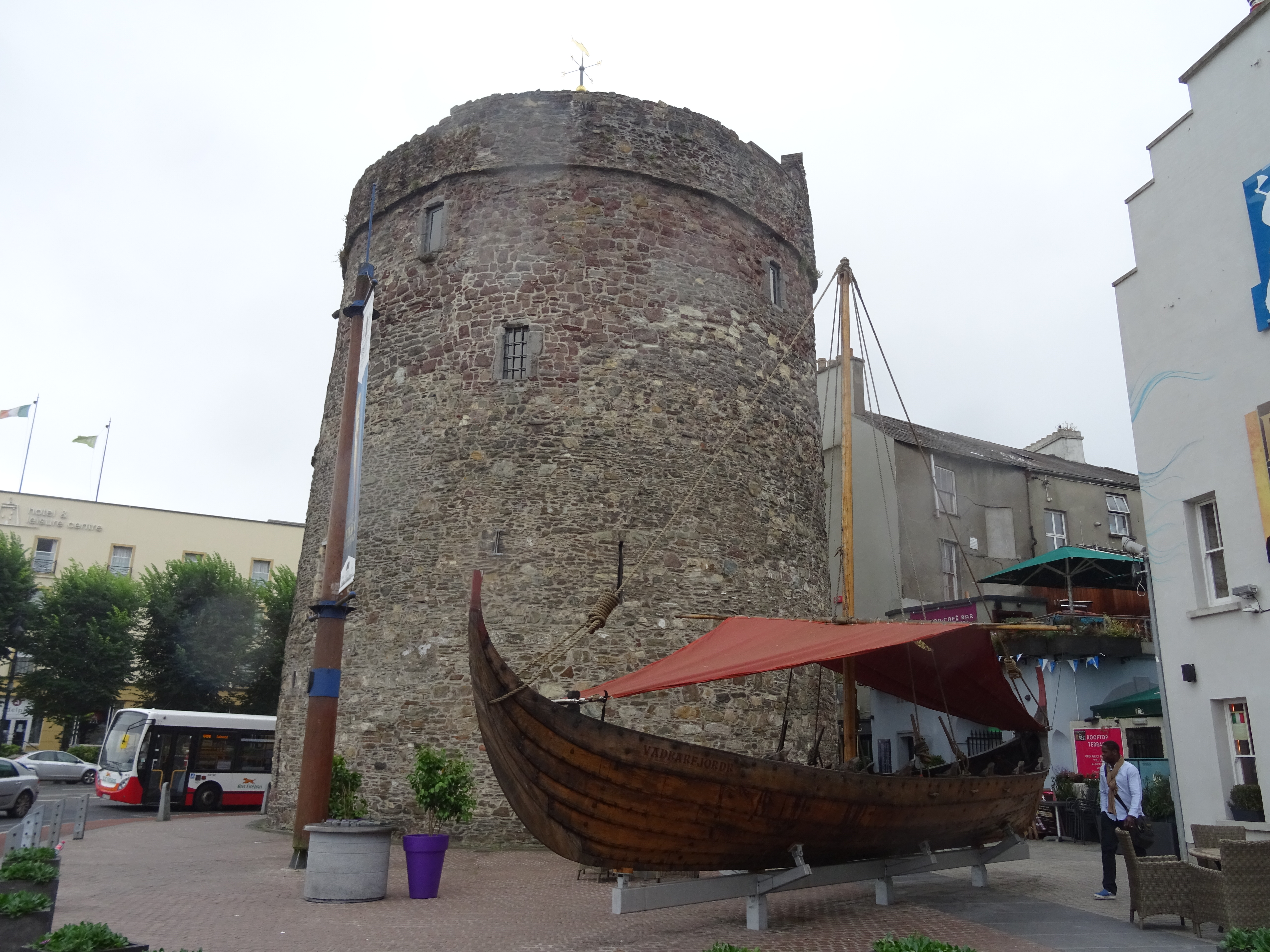 Reginald's Tower in Waterford, Ireland, with a replica Viking longship.